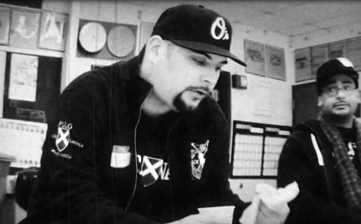 Dirt E. Dutch on the set of The Protege of Phenetiks' "No Pressure" video shoot.